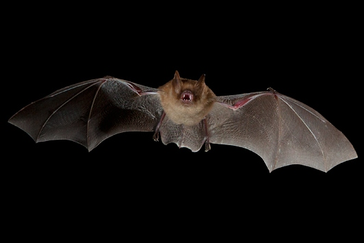 Geoffroy's Bat flying